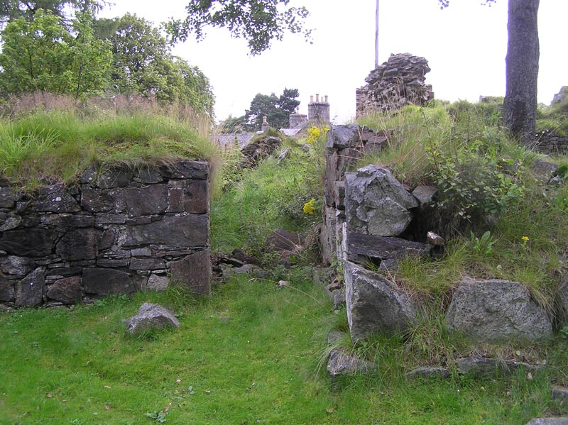 This photograph taken by Joe Dorward on 21AUG07 shows Kindrochit Castle, Braemar